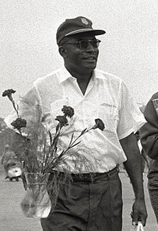 American athlete Wilma Rudolph smiling and embracing a team mate. Her trainer Ed Temple carries a bunch of flowers in vase. Rome, 1960